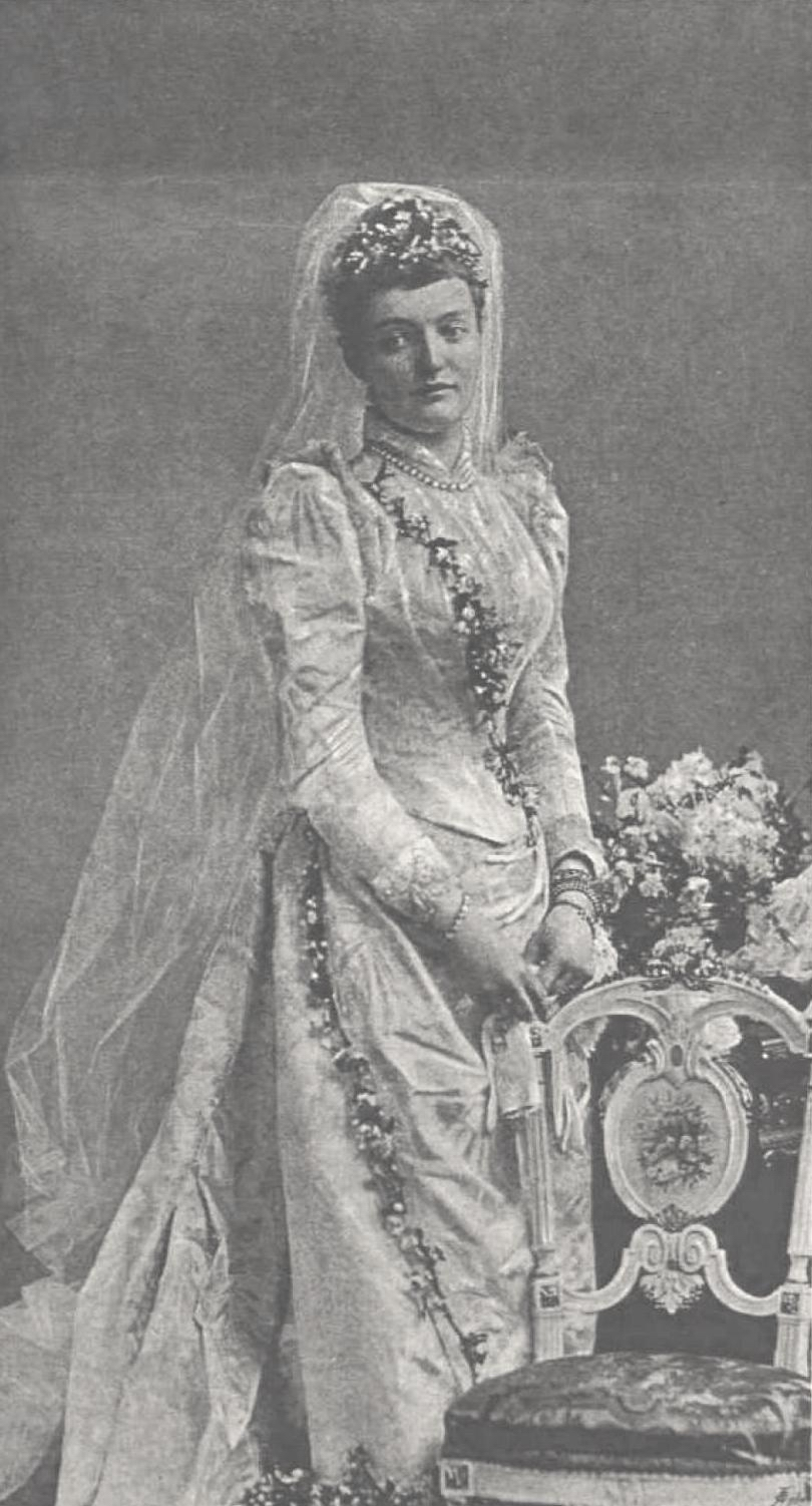 Archduchess Margarethe Klementine of Austria in bride dress